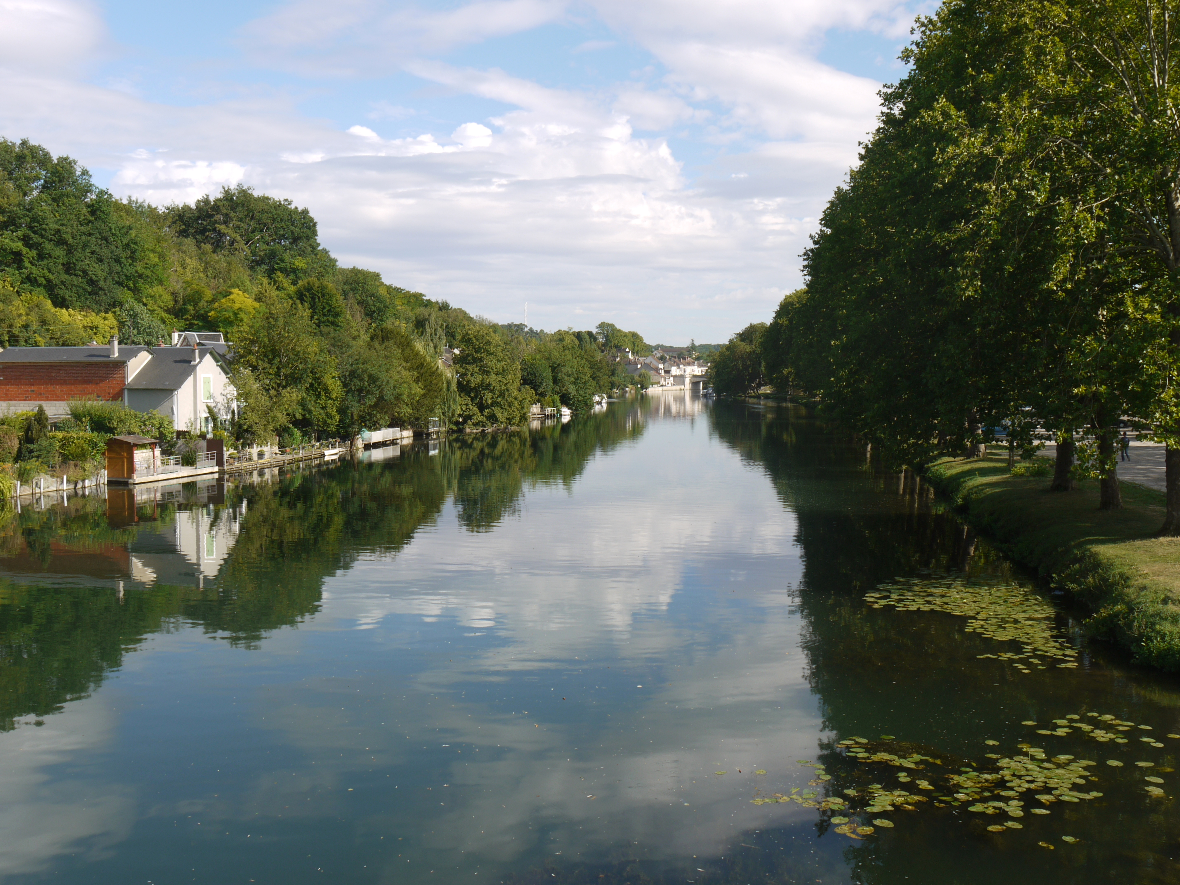 The river Loing in the city of Nemours, Seine et Marne, France